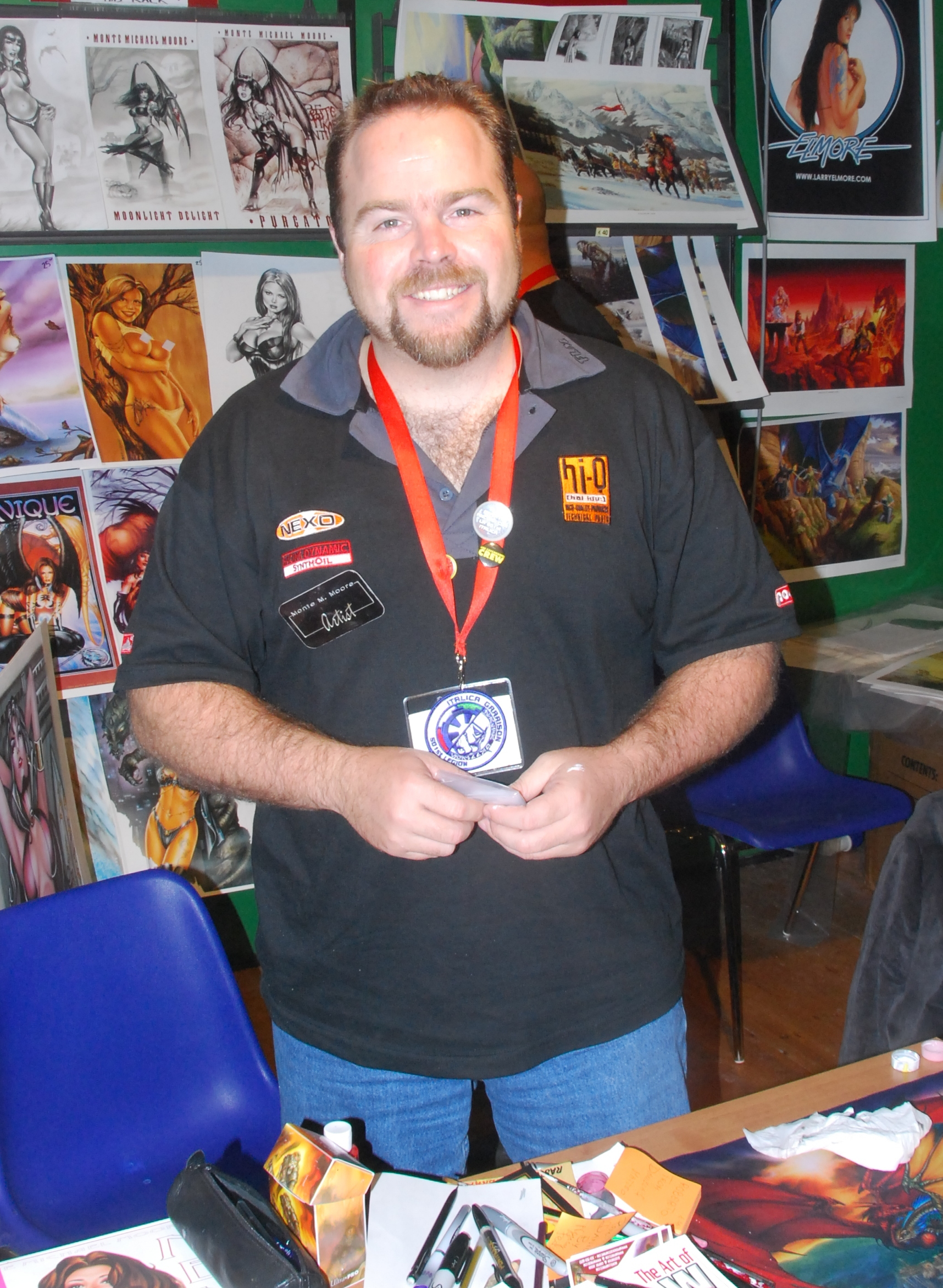 Monte Michael Moore at Lucca Comics and Games 2008